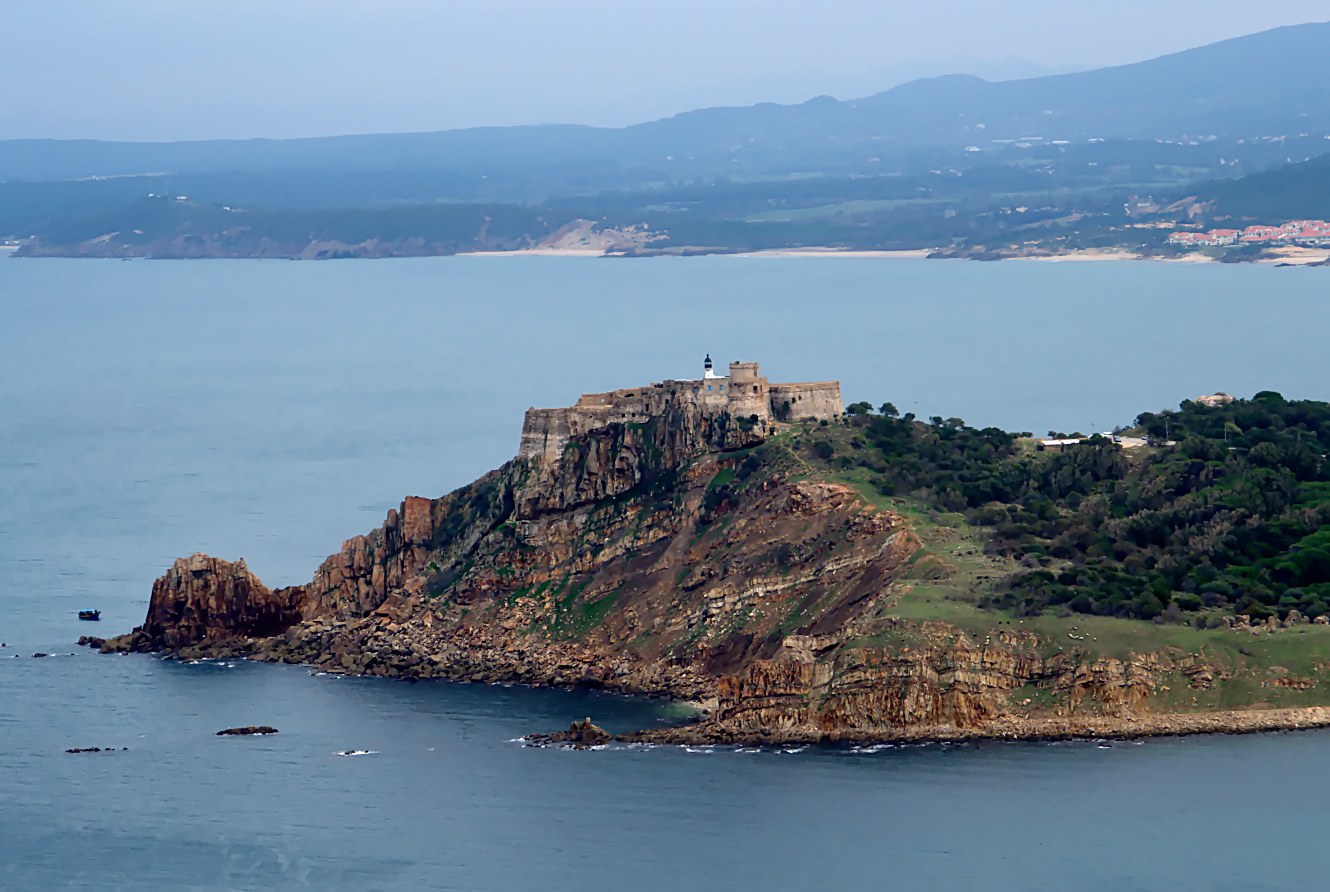 Photographs of Tabarka